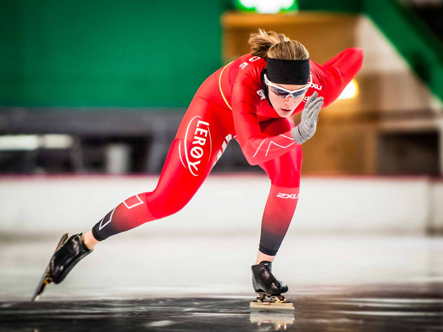 Norwegian Speedskater from Stange29.12.2016